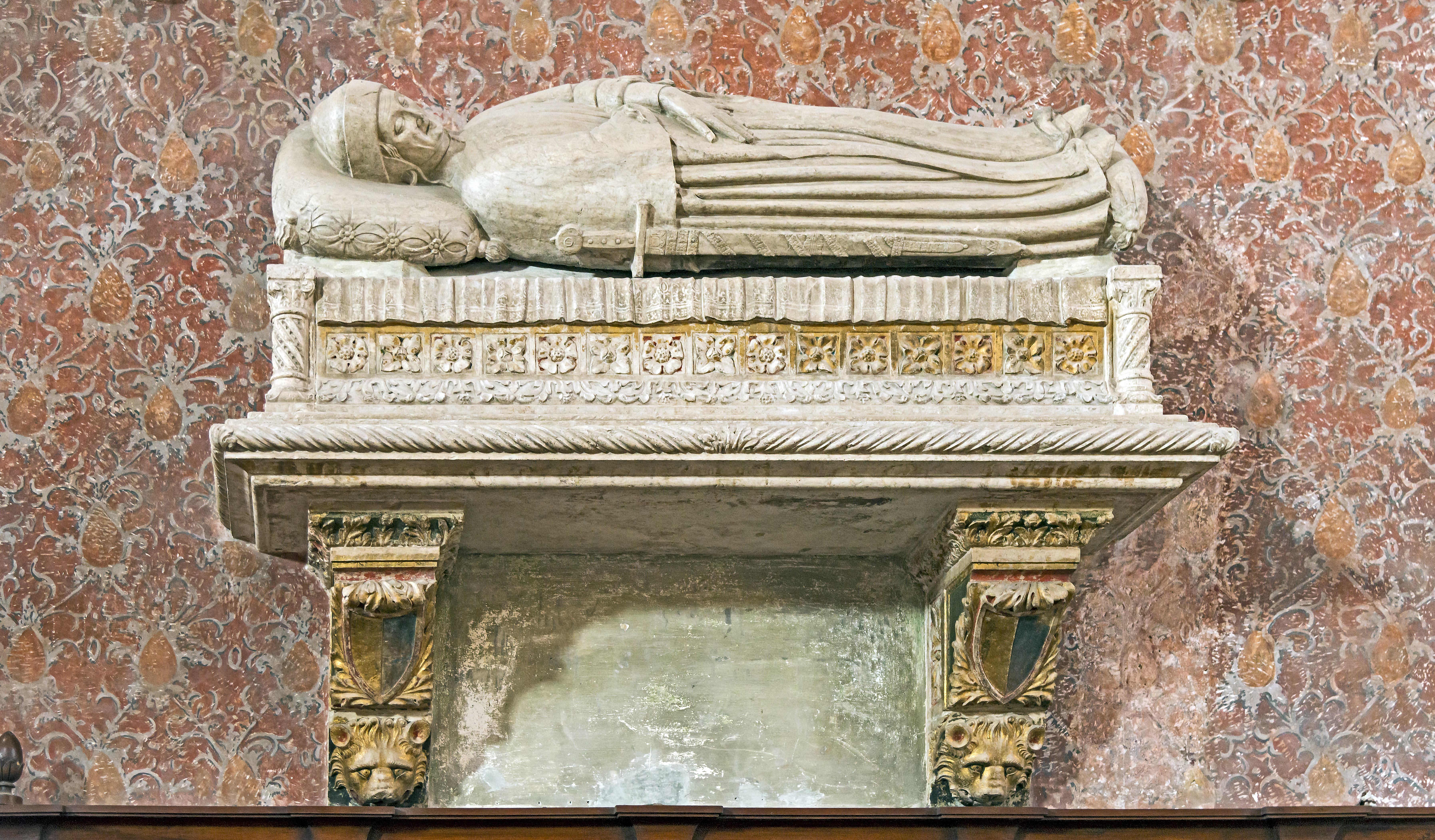 Choir of Santi Giovanni e Paolo in Venice. Tomb of the Doge Marco Corner.